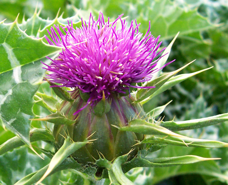 Milk Thistle Flower Permission is granted to copy, distribute and/or modify this document under the terms of the GNU Free Documentation License, Version 1.2 or any later version published by the Free Software Foundation; with no Invariant Sections, no Front-Cover Texts, and no Back-Cover Texts. Subject to disclaimers. Subject to disclaimers.